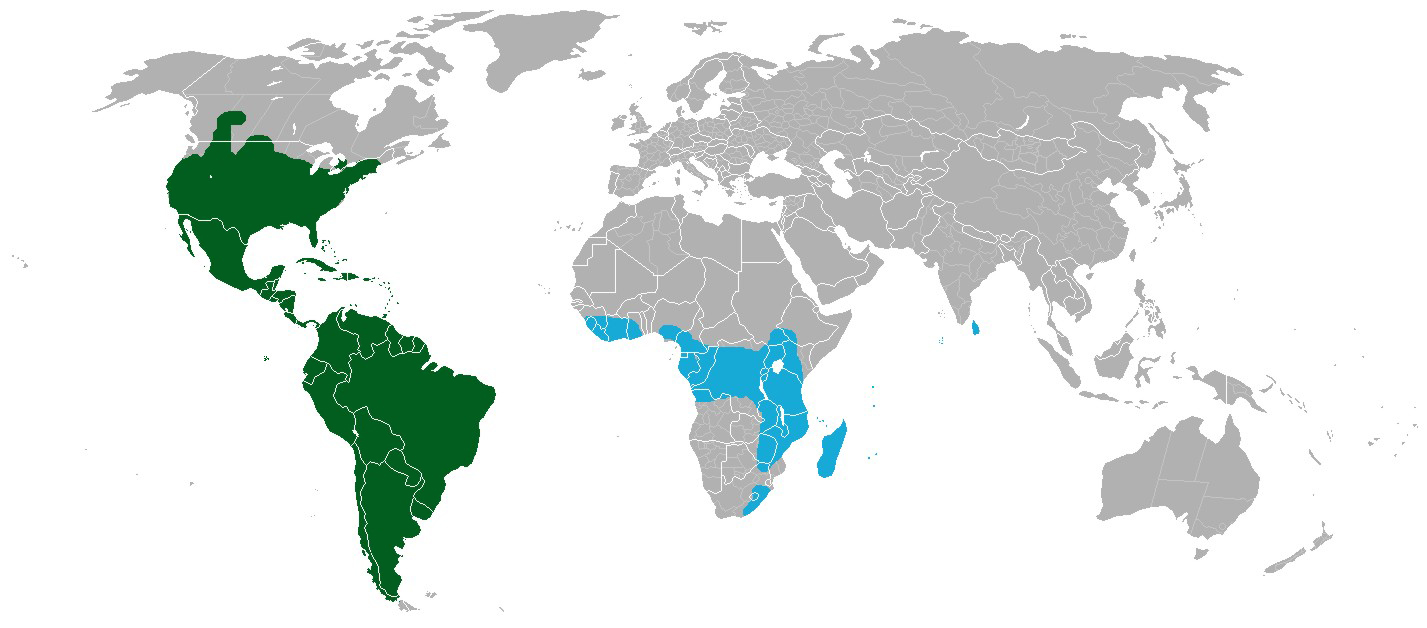 Distribution of Cactaceae Rhipsalis baccifera only All other cacti Source of information